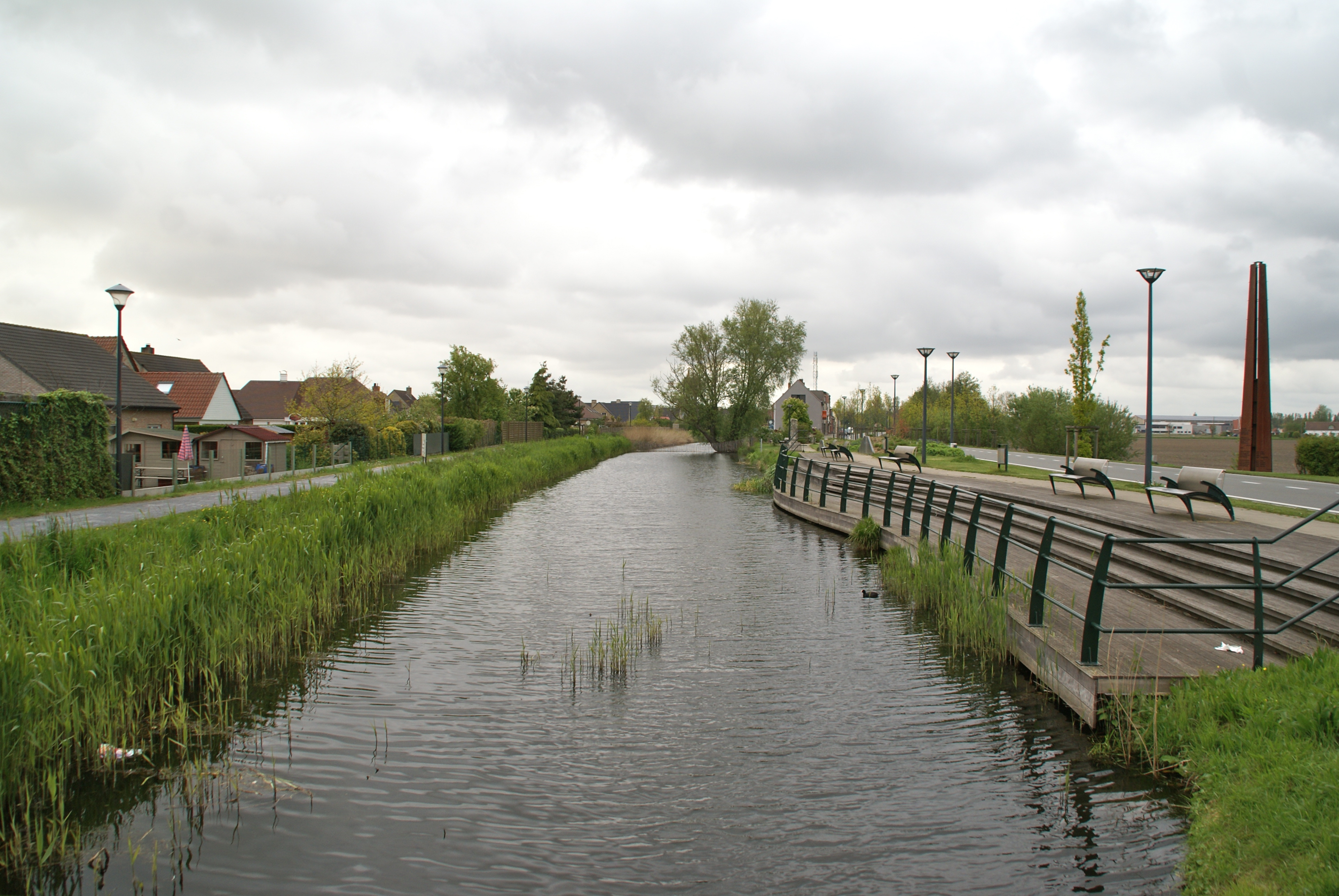 Oudenburg (Belgium): The canal Oudenburgs Vaardeken